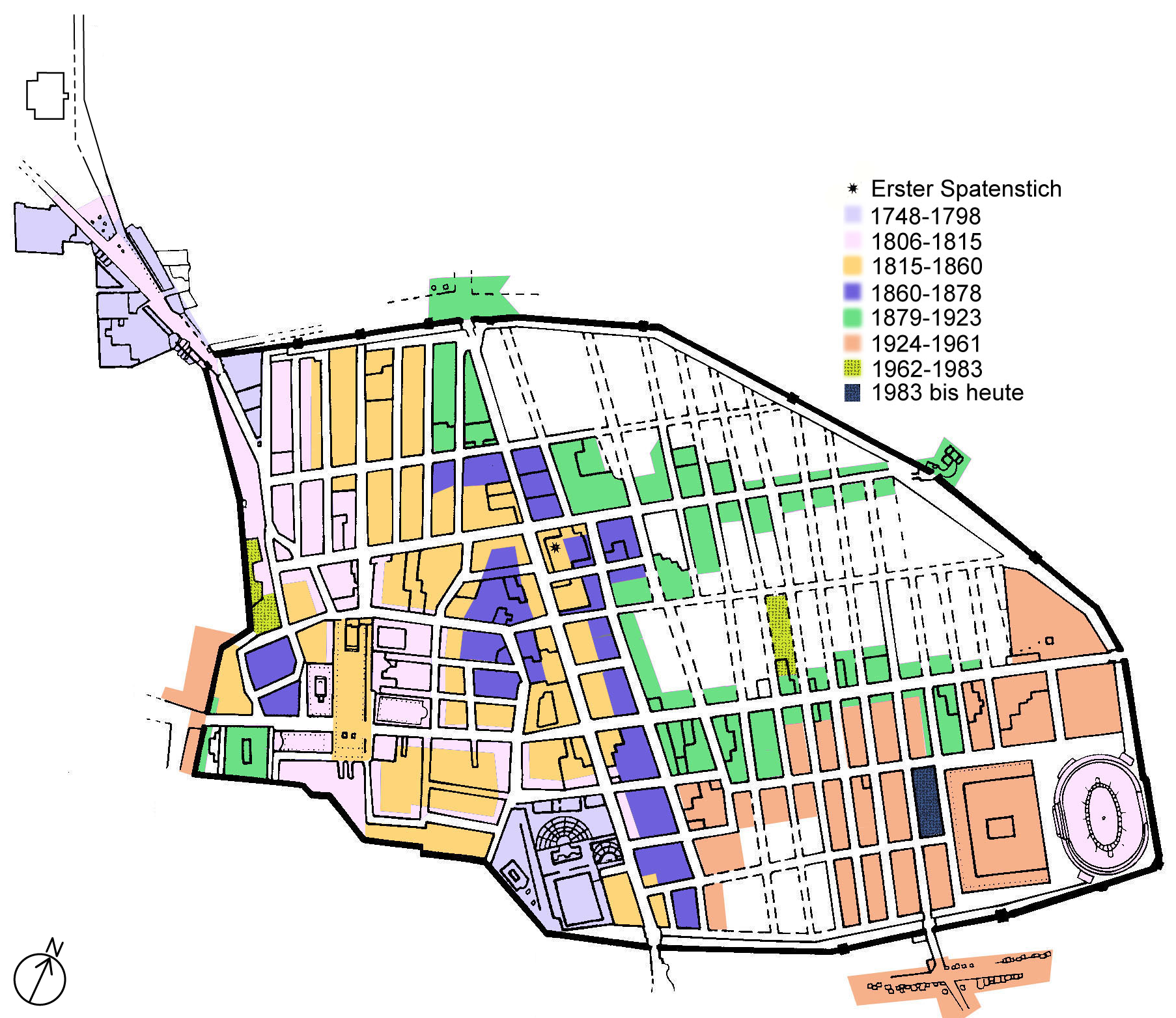 Timeline of the excavations in Pompeii.